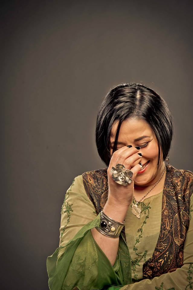 This is a creative portrait of Ms. Shokufeh Kavani